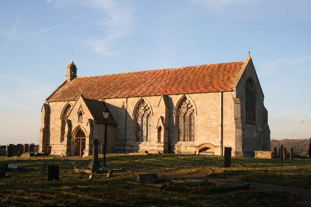 South Kyme church. A small fragment of the Priory founded for Augustinian Canons before 1169 by Philip de Kyme. What we see here is the west end of the south aisle and a small bit of the nave tidied up by Hodgson Fowler in 1890. Some fine windows and Norman south door.